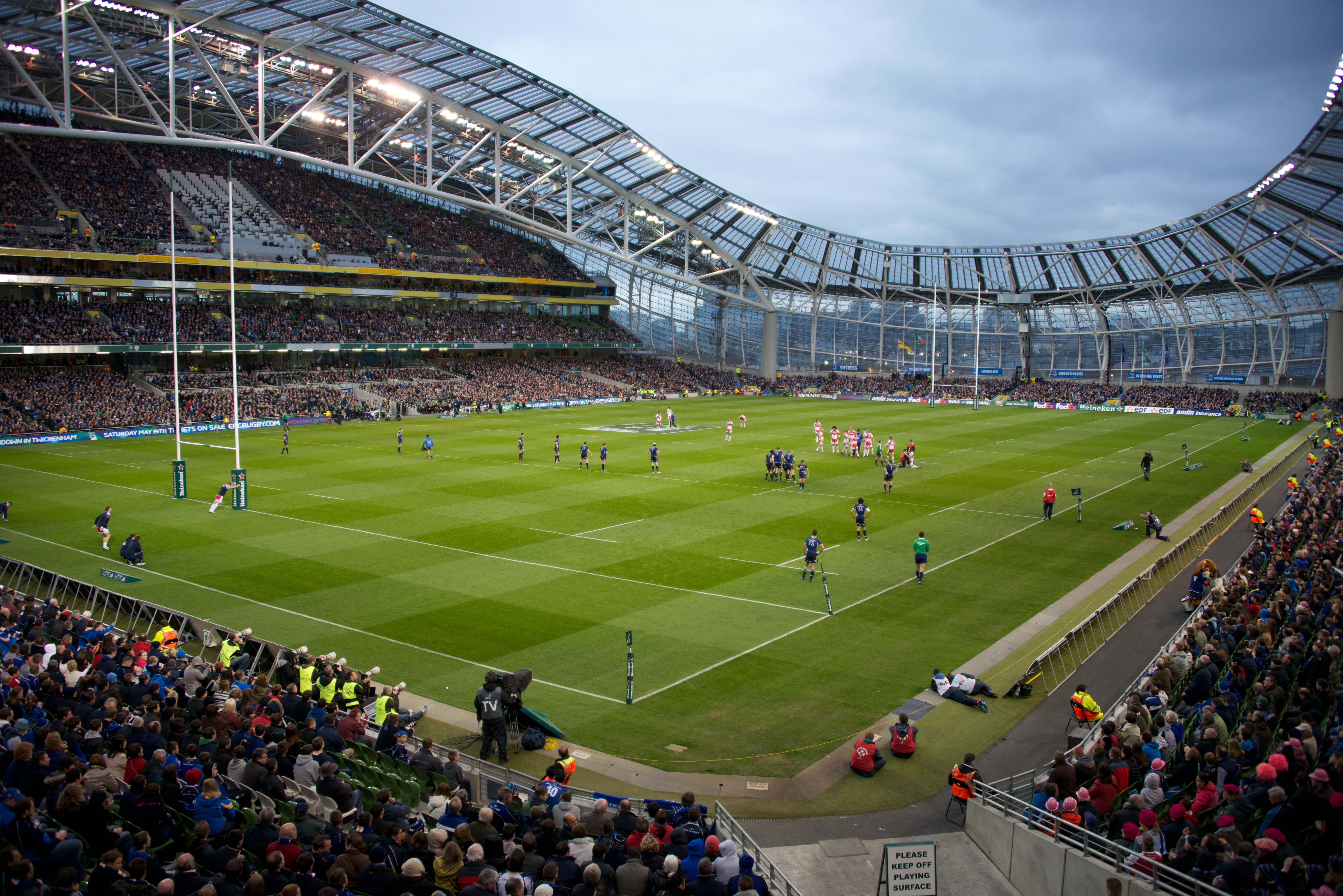 The View from Block 312 in the Aviva Stadium (Lansdowne Road)